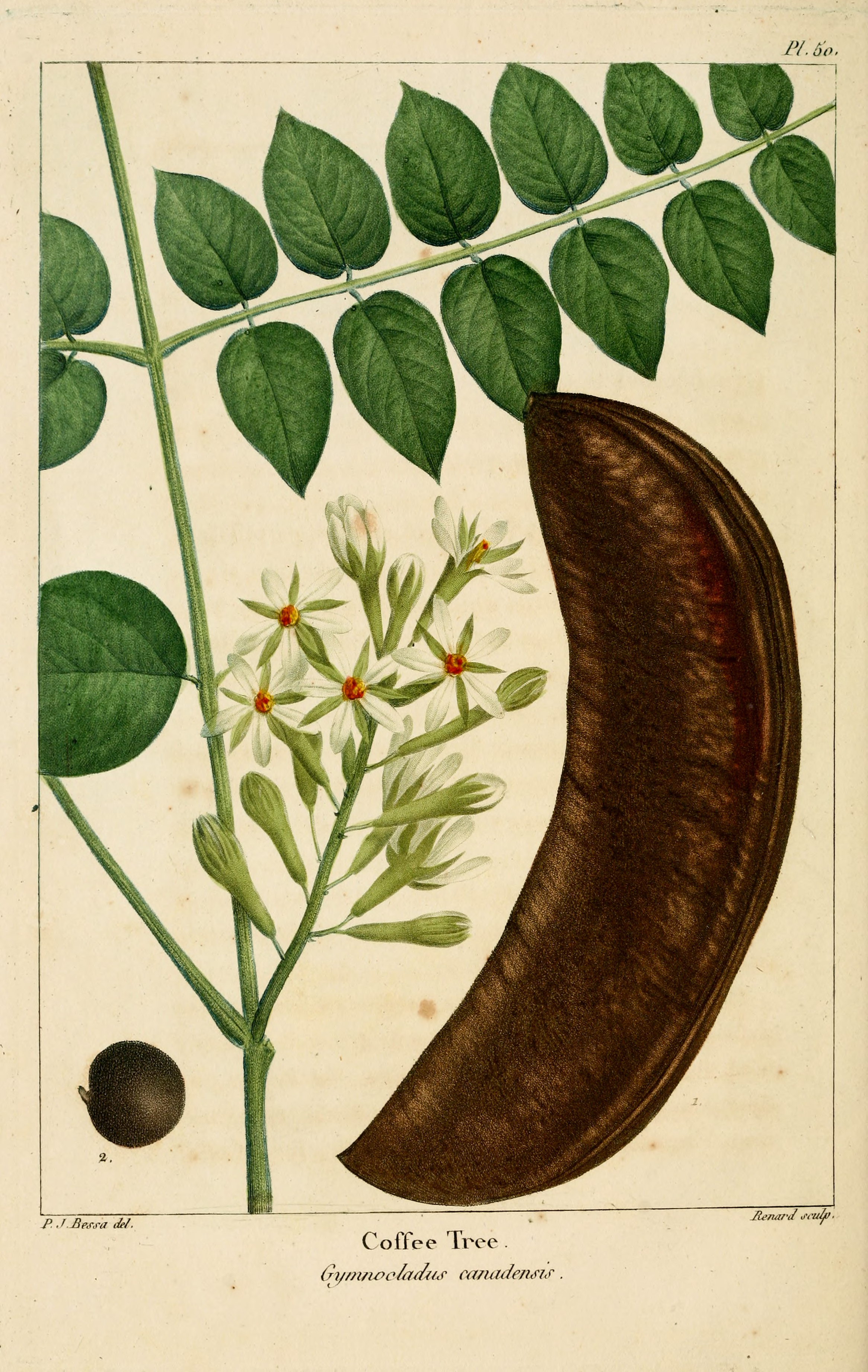 Plate 50 from The North American Sylva: Gymnocladus dioicus. (Original caption: Coffee Tree. Gymnocladus canadensis.)